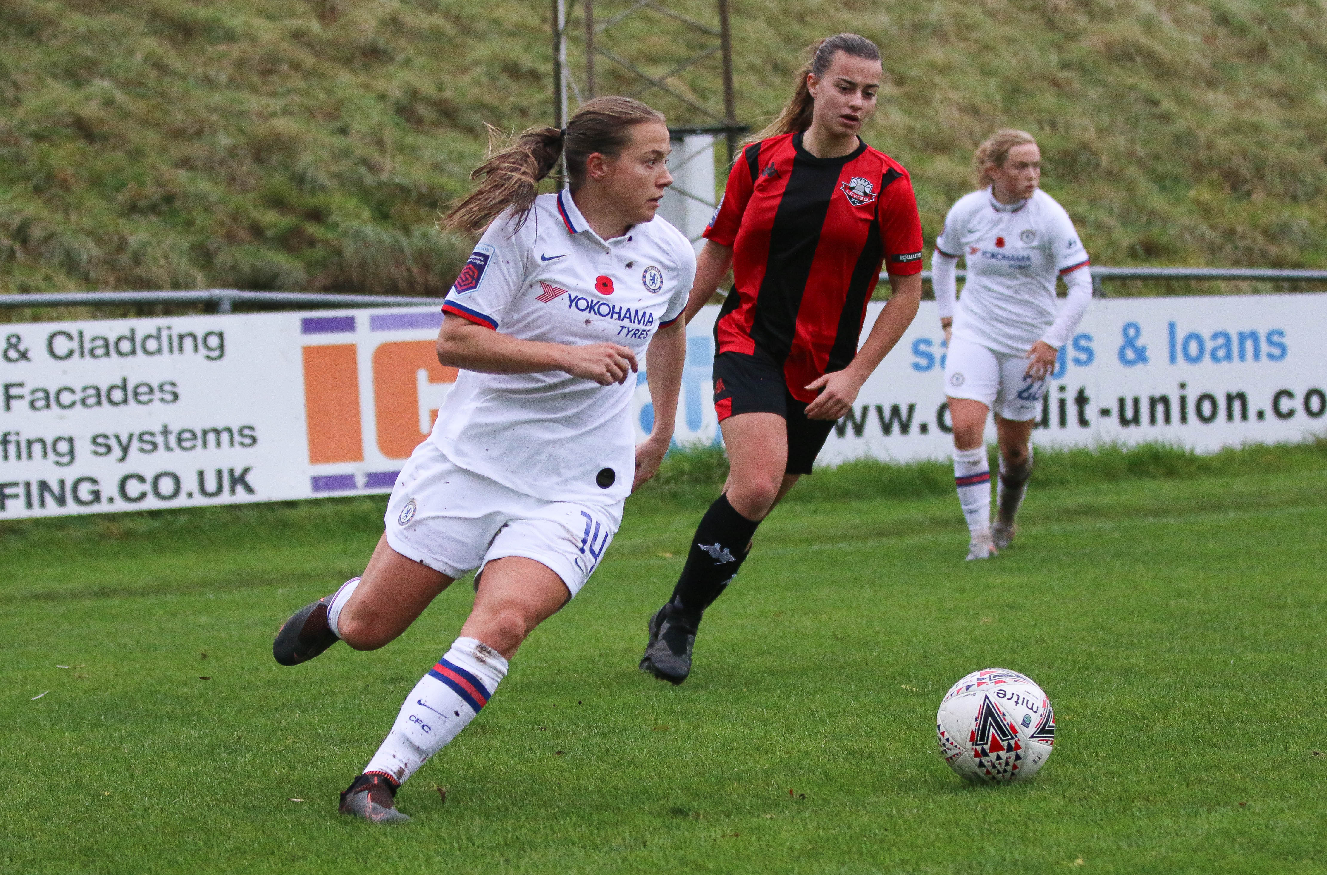 Lewes FC Women 1 Chelsea Women 2 Conti Cup 02 11 2019-213.jpg